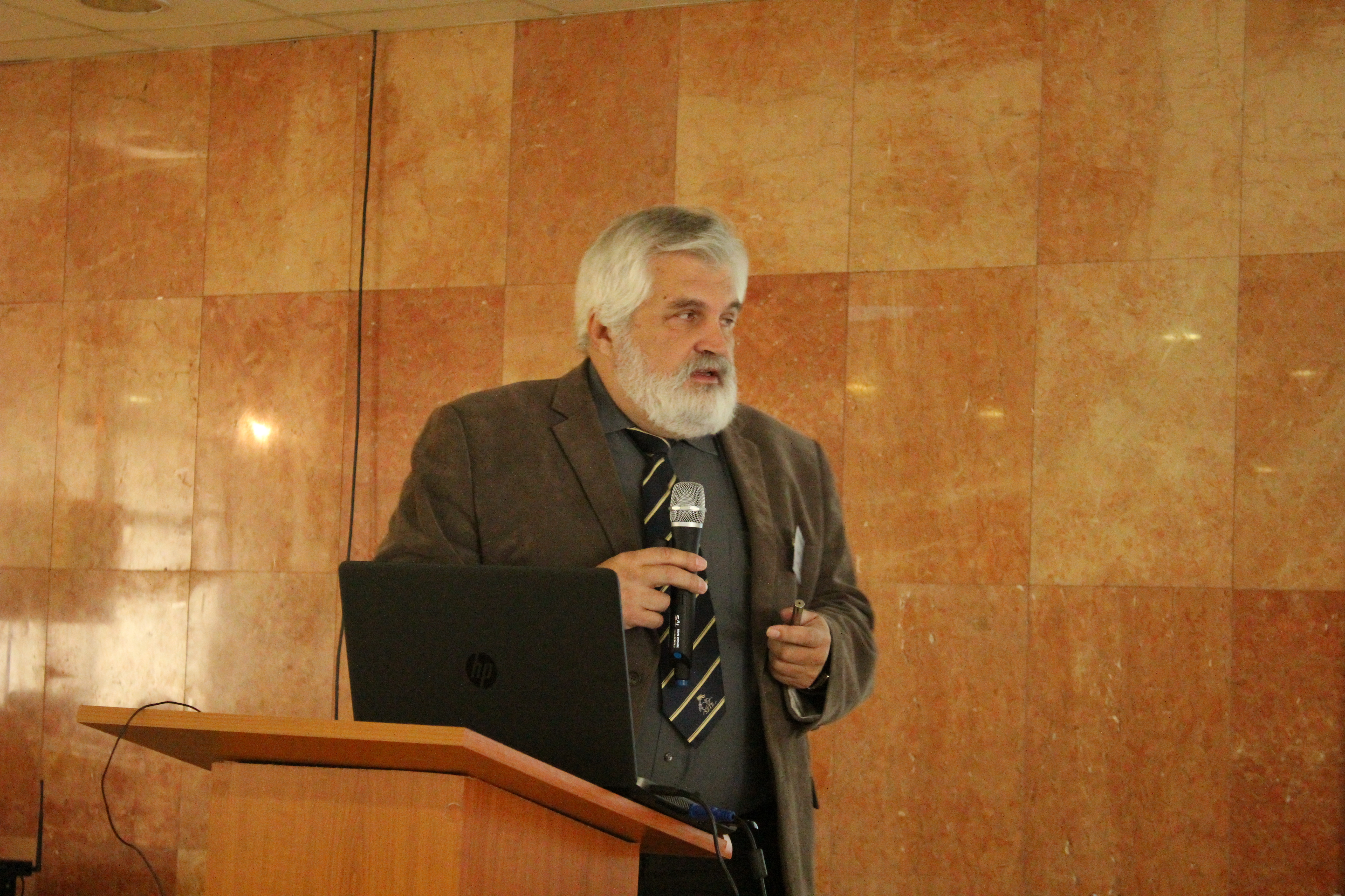 Gábor Szabó, Hungarian physicist.